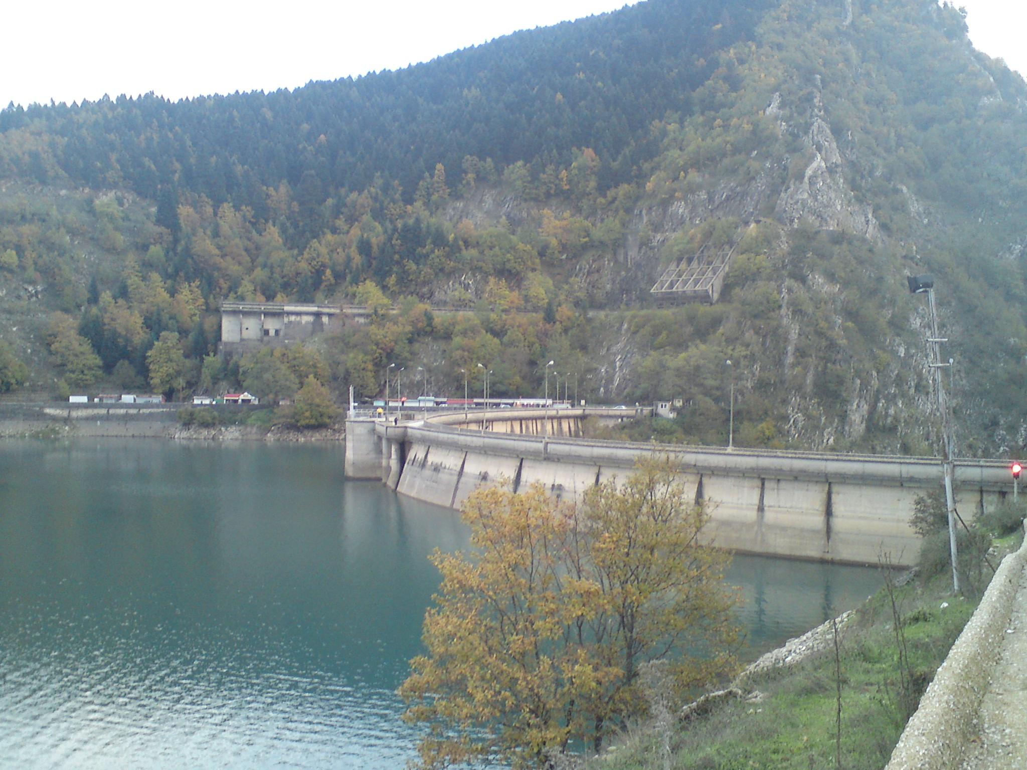 The hydroelectric dam in Lake Plastira, Karditsa prefecture, Greece